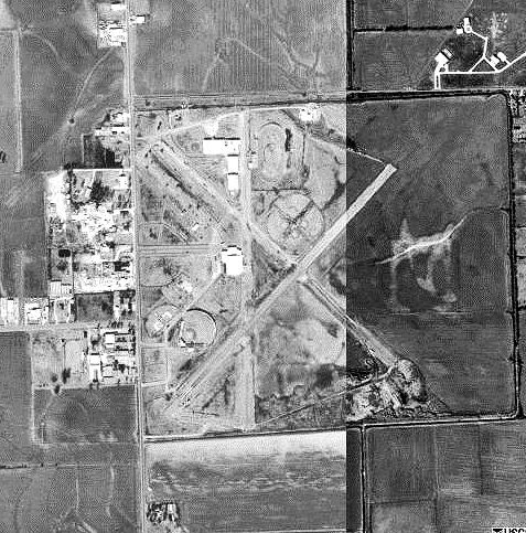 USGS digital orthophoto of Greenville Municipal Airport (Old) in Mississippi